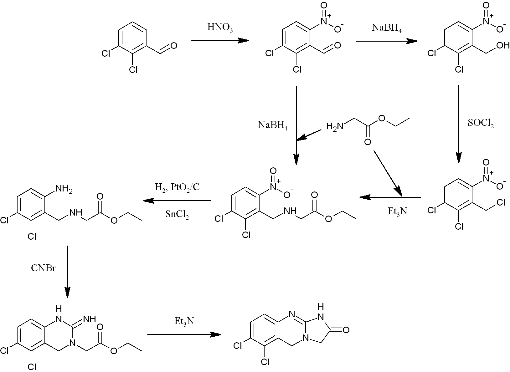 Anagrelide synthesis